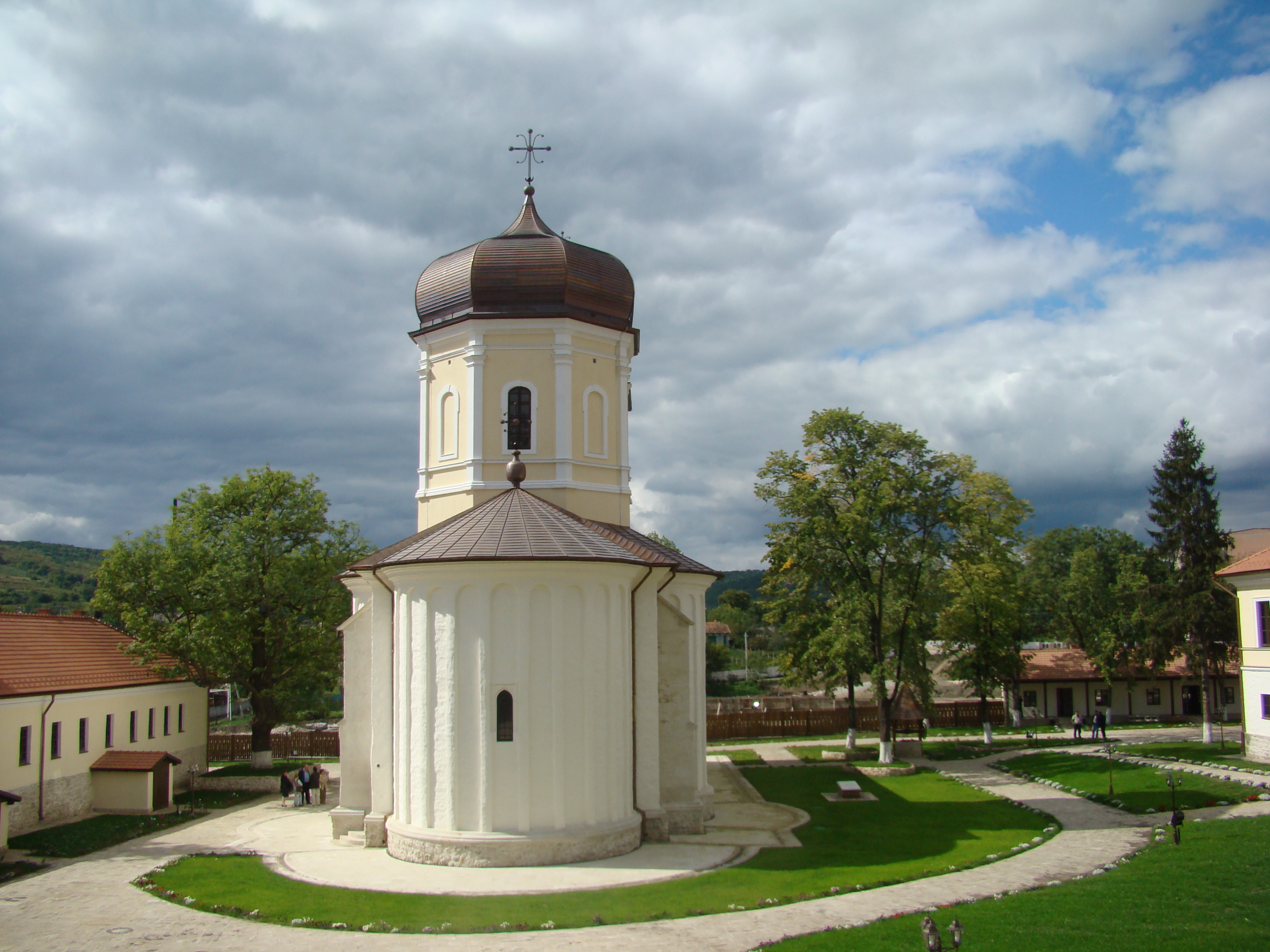 The Căpriana monastery area in 2007.